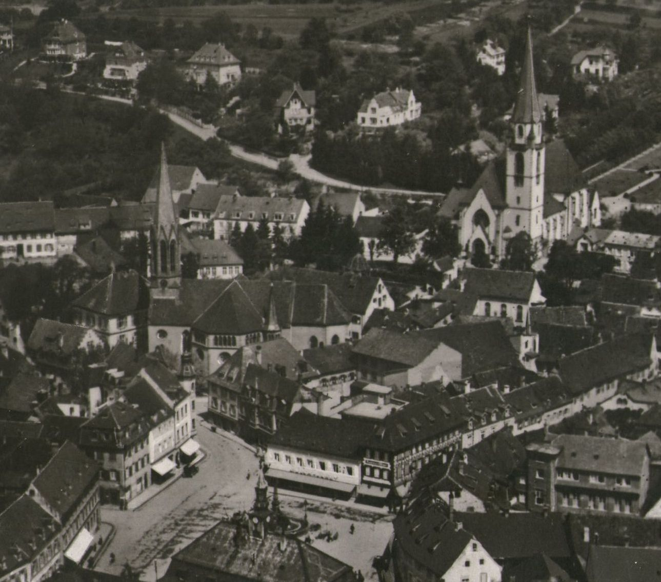 Emmendingen - Center of the City with the Market Place, Churches, Synagogue - Old postcard - Zooming in.